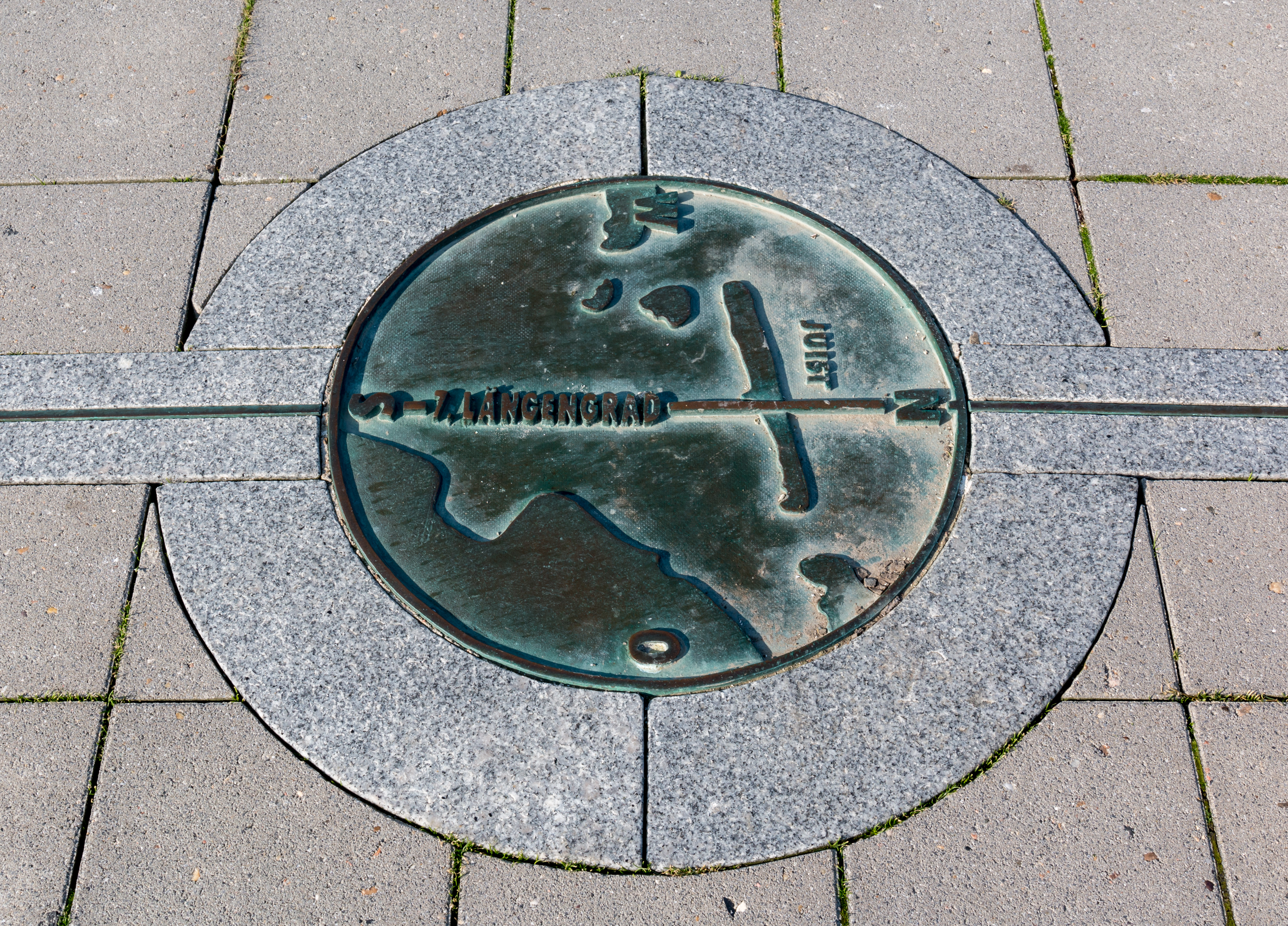 Sculpture “7. Längengrad” at the pier, Juist, Lower Saxony, Germany Sculpture Title7. LängengradArtistUnknown artistDate2006